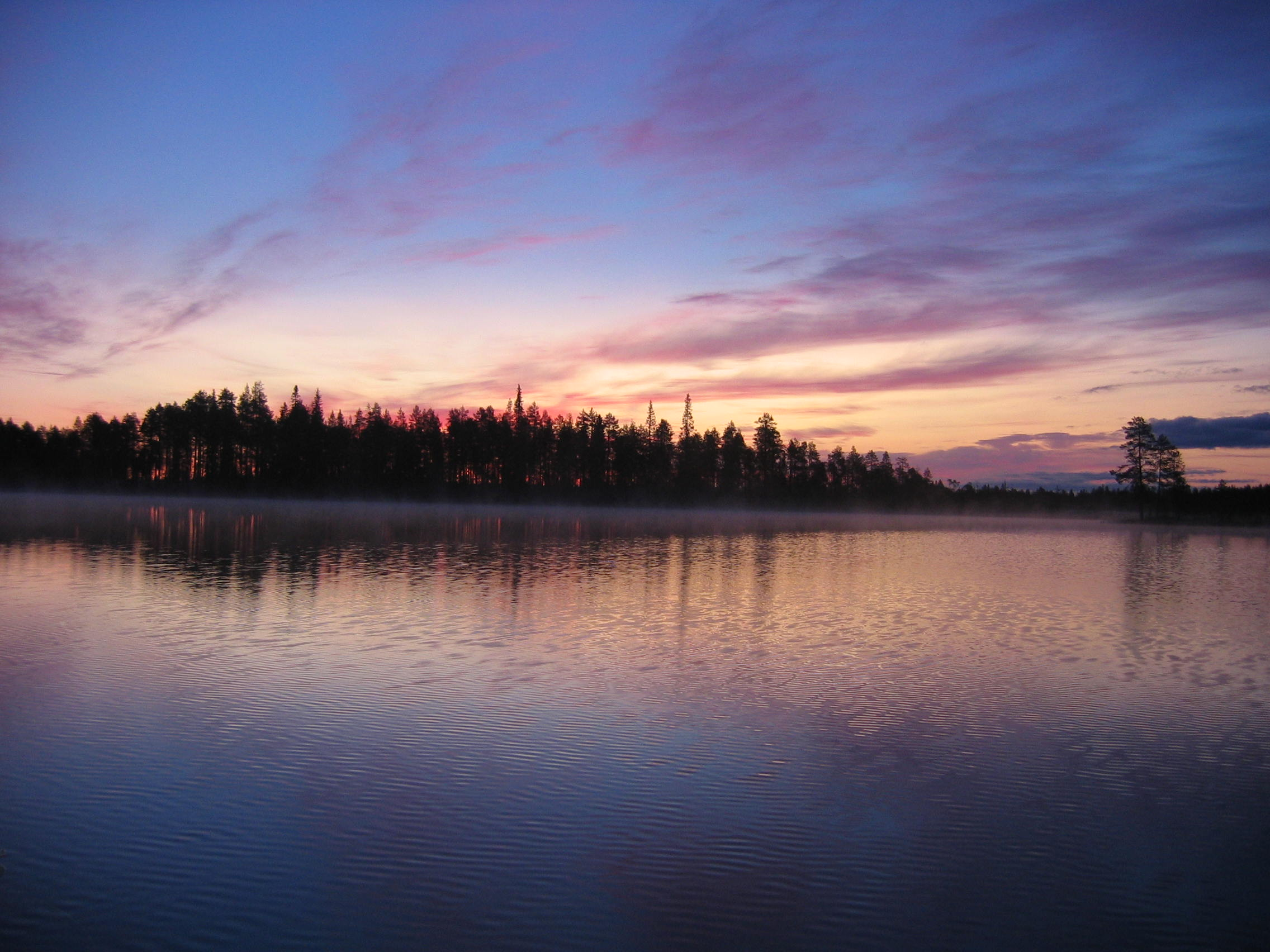 Early morning mist at the small lake Kalliolampi in Puolanka, Finland.